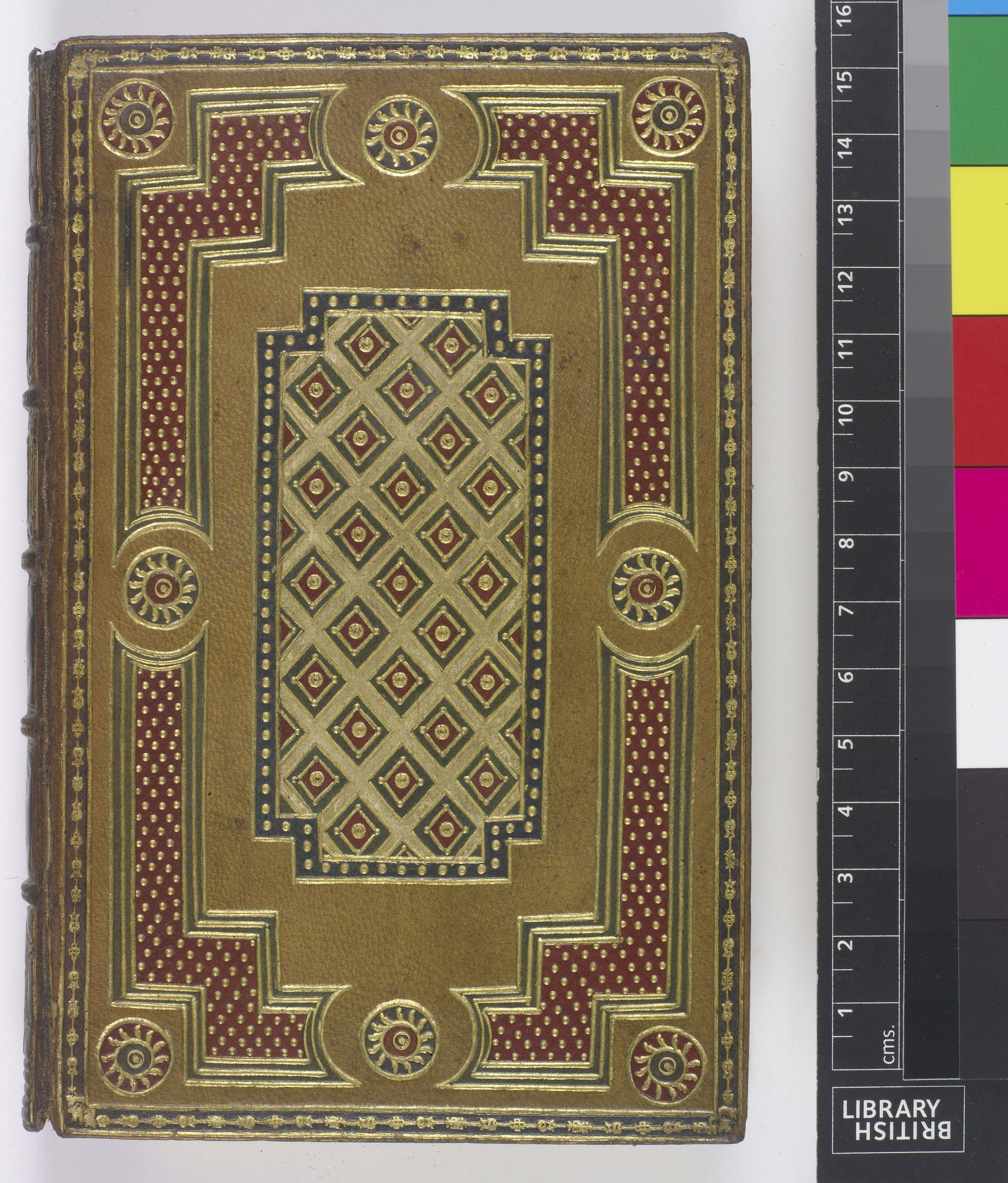 Style: All over design; Caption: Upper cover; Colour: Citron|Red|Green|Blue; Edge: Unspecified